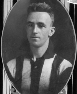 Photograph of Tommy Bird from 1925-1928